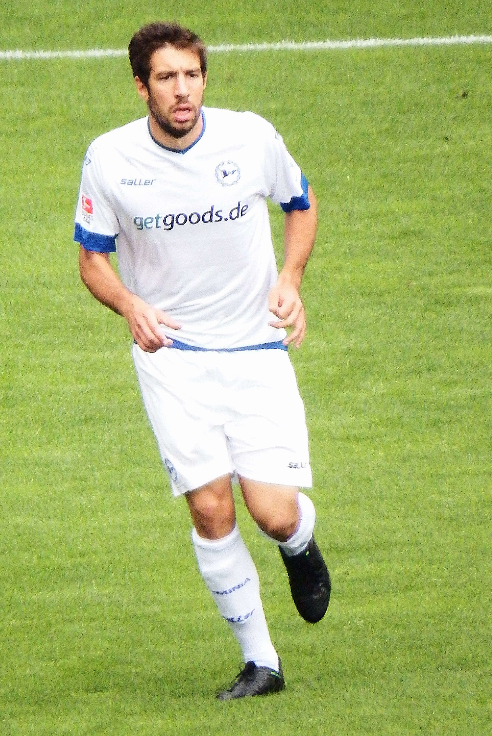 Patrick Schönfeld as Player of Arminia Bielefeld